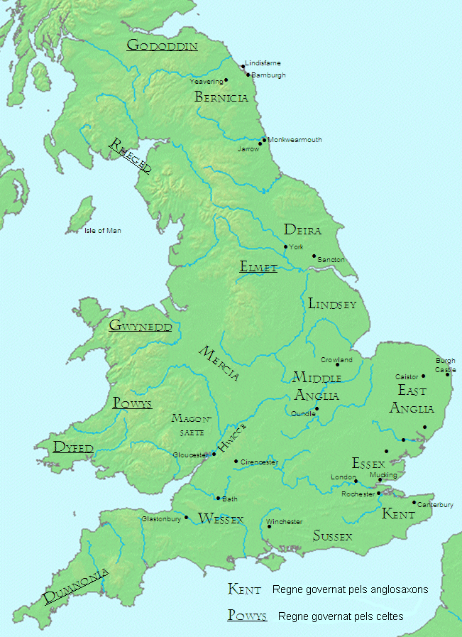 Map of England and Wales, showing Anglo-Saxon and Celtic kingdoms as of c. 600. Redrawn from a map in James Campbell, The Anglo-Saxons, Penguin Books, 1991.